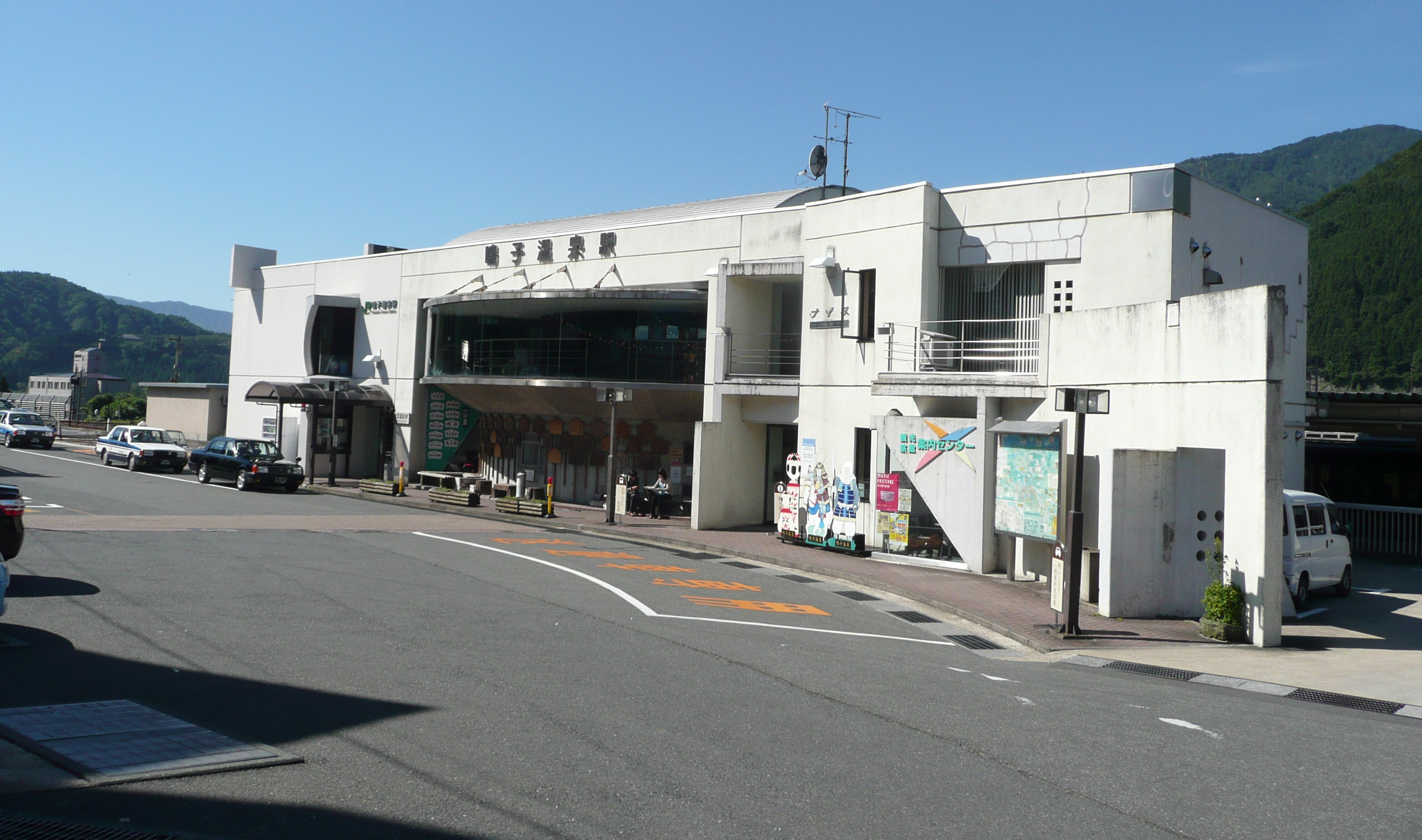 鳴子温泉駅の駅舎